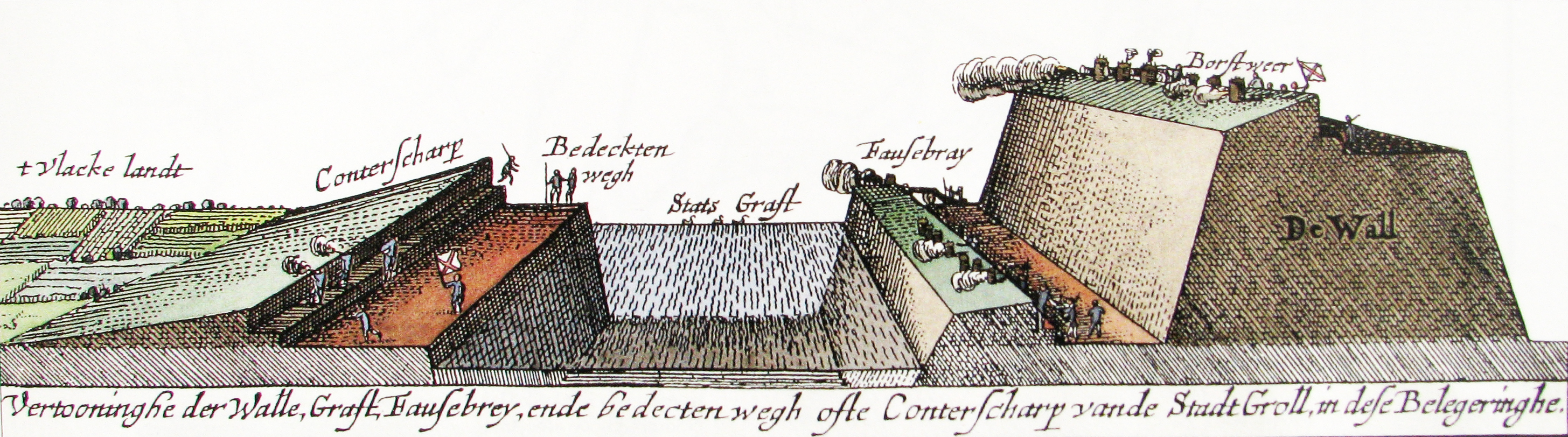 Intersection of the defensive works of Grol (Groenlo) in 1627. Image from the Life of Frederick Henry by Commelin (1651) The text: Conterscharp on the drawing is not positioned correctly. The associated text says correctly that the Conterscharp is the wall faceing the moats outer side.